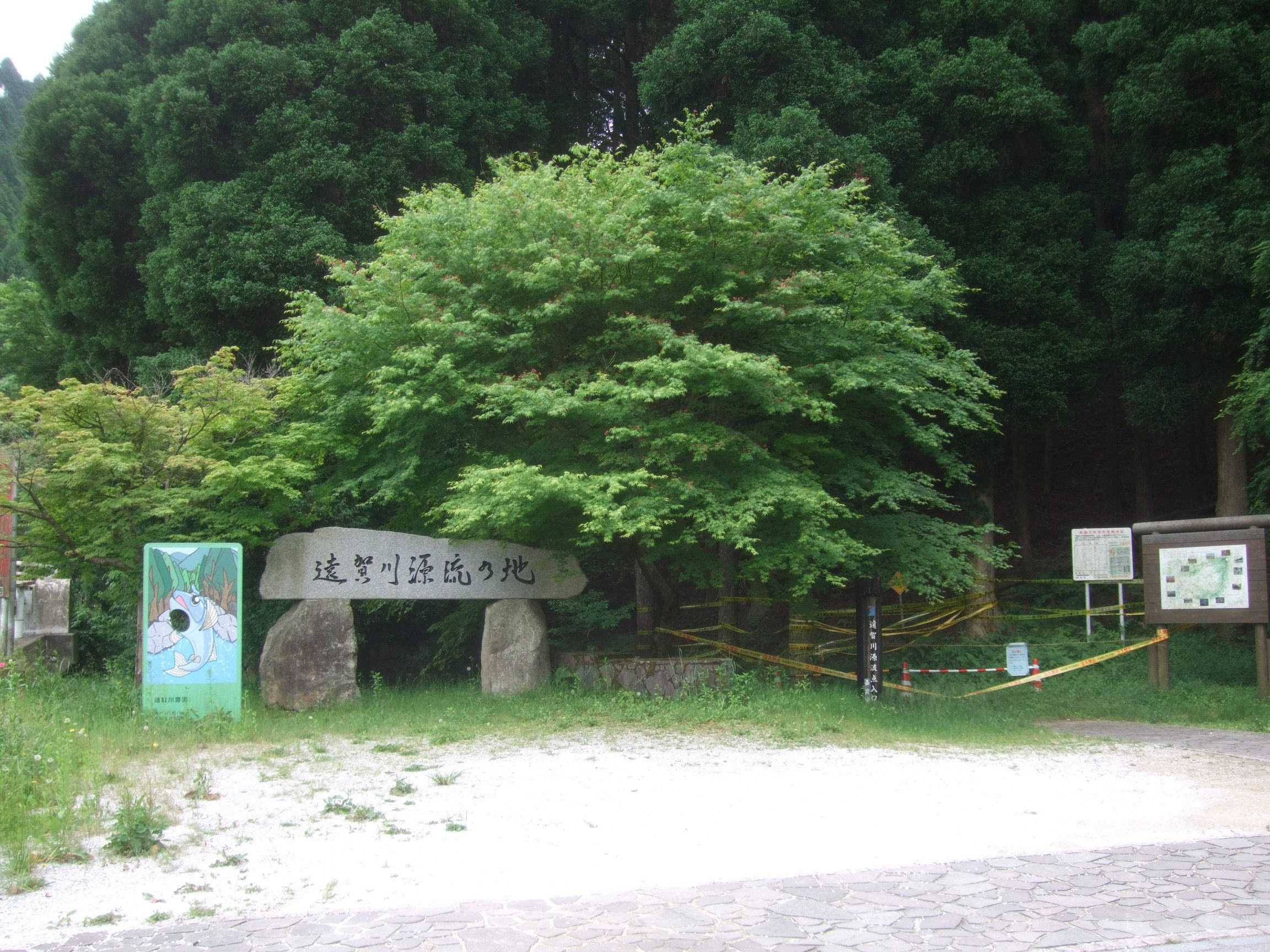 Onga River Source Park, Kama City, Fukuoka, Japan.